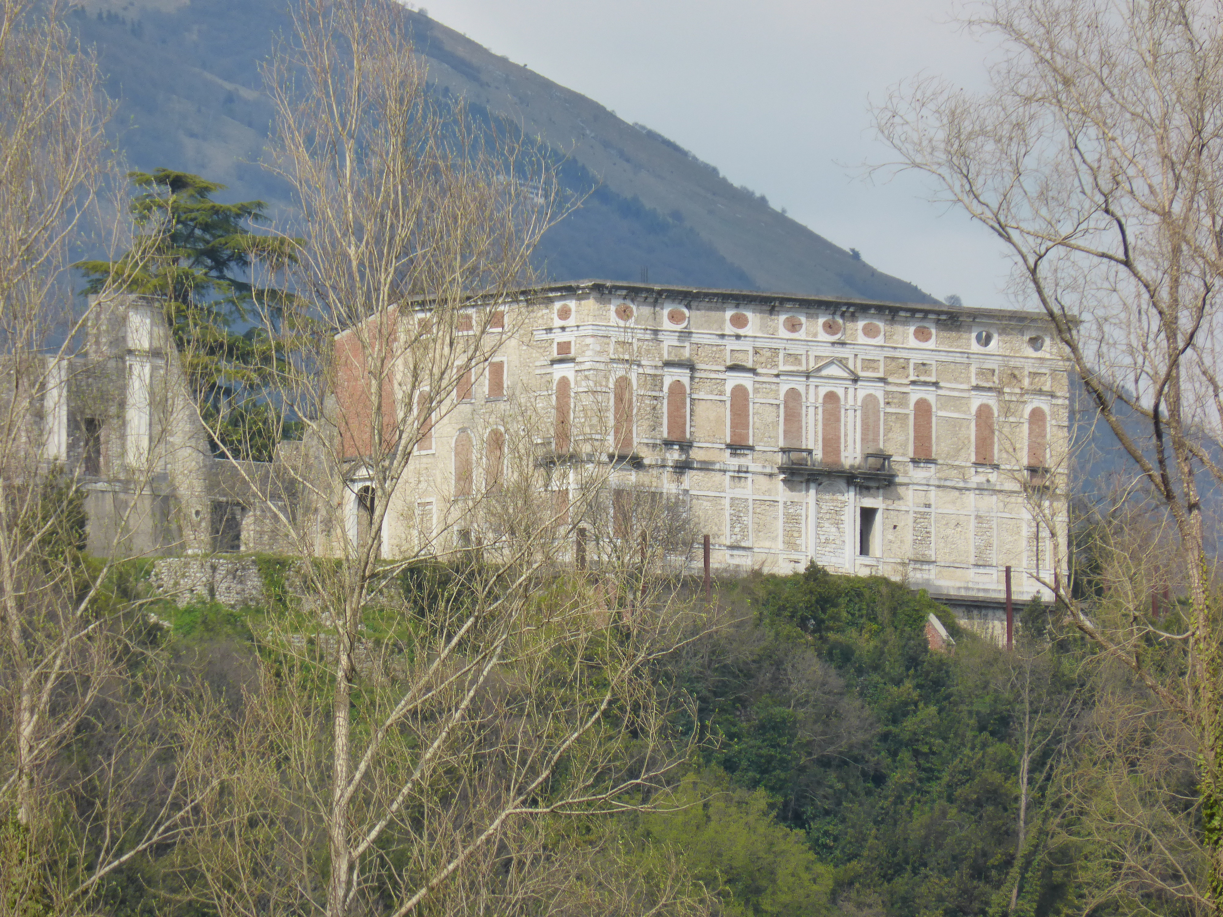 A view of the castle of Polcenigo.